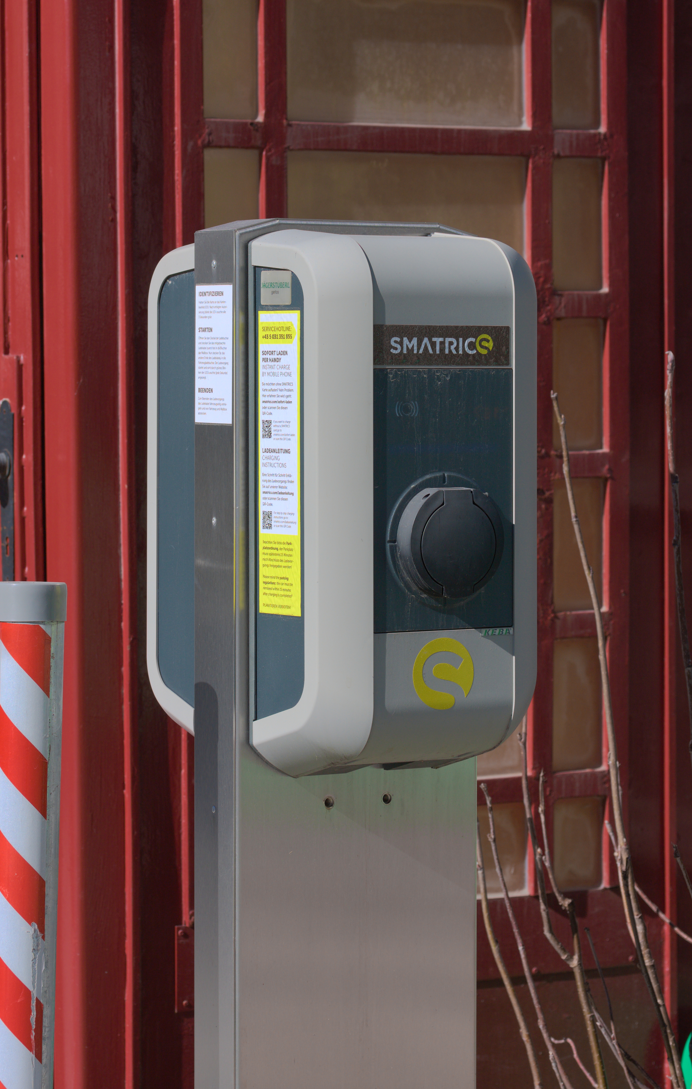 A charging station by SMATRICS at number 217 in Gerlos, Tyrol, Austria